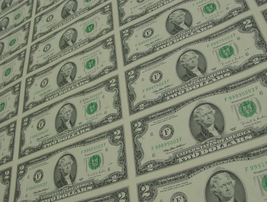 This photograph is of an United States two dollar uncut 32-subject (32-note) currency sheet. A 32-subject sheet is the largest sheet available from the Bureau of Engraving and Printing. The image is tilted, yet still allows you to see that there are 4 columns and 8 rows, which in this $2 uncut sheet, represents $64. The sheet photographed here contains 1995 series notes and was purchased in the first week of July 2001 from the Bureau of Engraving and Printing in Washington DC for $80. If you can't make the trip, you can buy your own 32-subject sheet online from their store